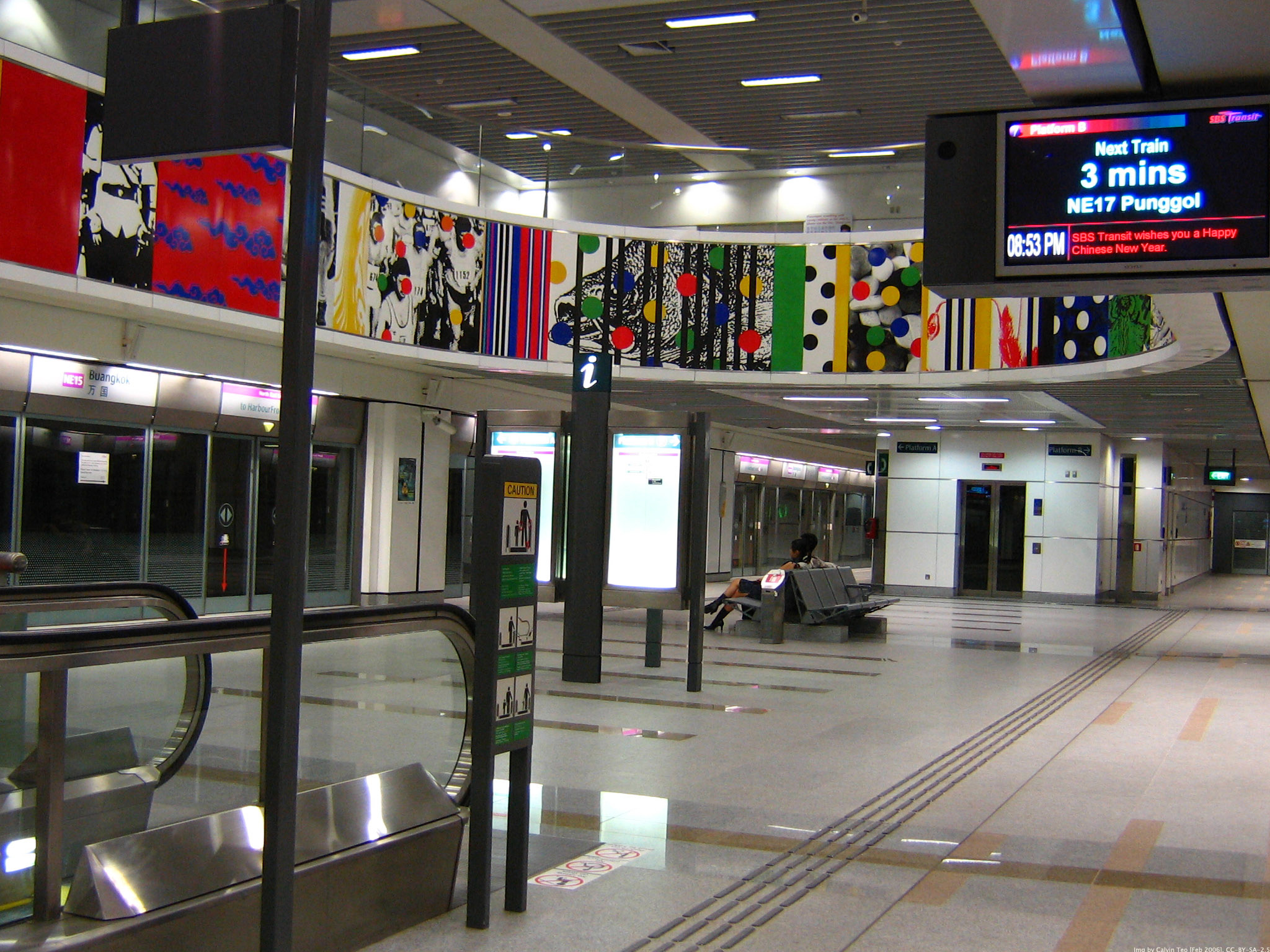 Another view of Buangkok MRT Station (NE15) and Art in Transit at the station. Img by Calvin Teo, Feb 2006